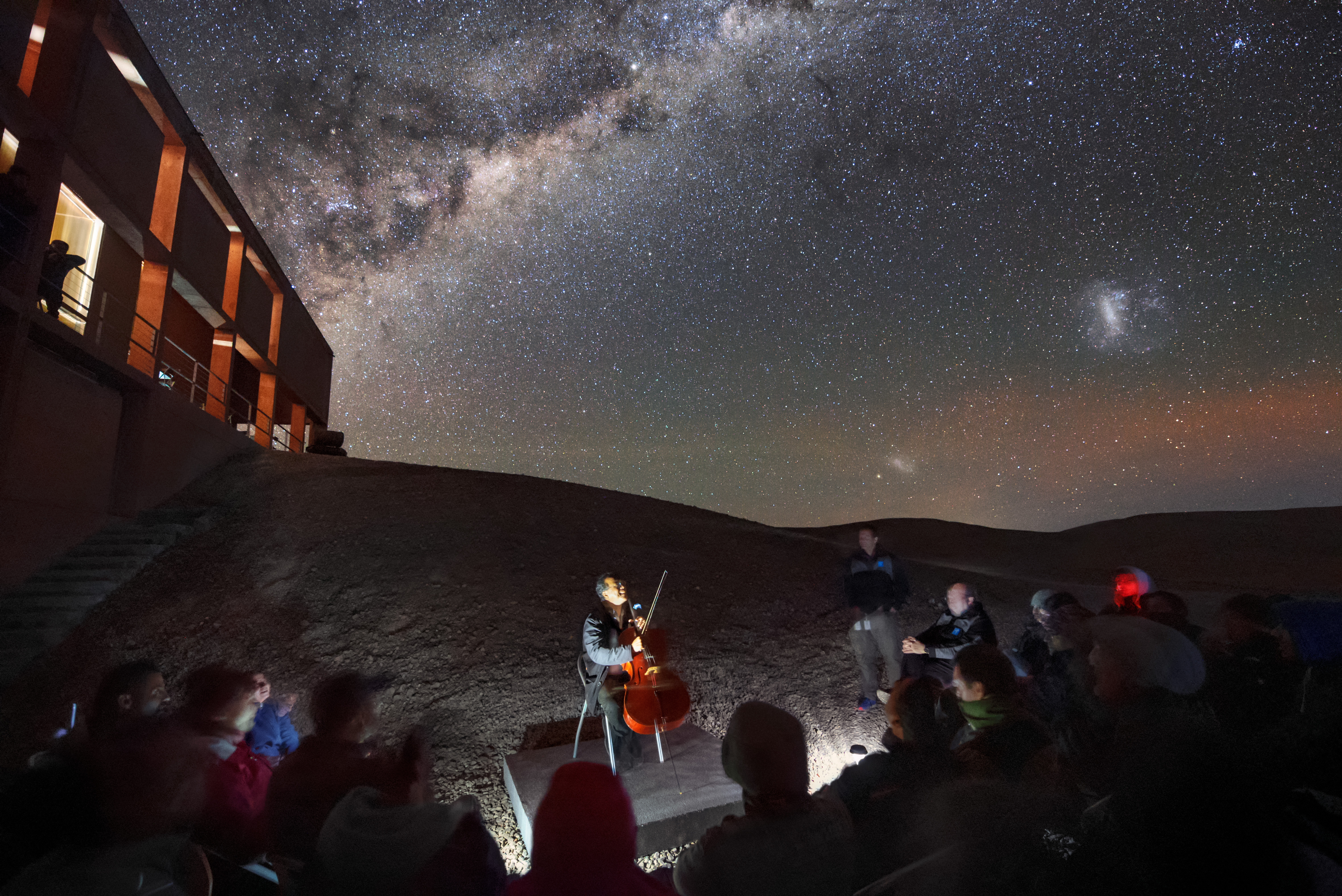 In a once-in-a-lifetime opportunity, staff at ESO’s Paranal Observatory were treated to a unique performance by the world-renowned cellist Yo-Yo Ma. On 1 May 2019, the celebrated musician visited Paranal to see the astronomical centre, home of the Very Large Telescope (VLT), and experience its dazzling skies first-hand. To the delight of the staff, he gave a special concert for which he requested completely dark skies. He is pictured here during the starlit performance, with the majestic band of the Milky Way and the Magellanic clouds overhead, making for a uniquely atmospheric setting. He gave renditions of several Bach cello suites among other pieces, and even asked his audience if they had any special requests. The next day, Yo-Yo Ma met with some members of staff, who shared their experiences of working in the extreme environment of the Atacama Desert to unveil the mysteries of the Universe. He was given gifts as mementoes of his visit, including an ESO cap, which he later wore during a performance in Santiago. The artist was motivated to visit the site and perform there by his deep fascination with astronomy. He and his team have described the experience as a major highlight of the tour.